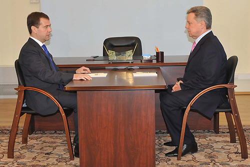 ODINTSOVO. With Governor of Moscow Region Boris Gromov.